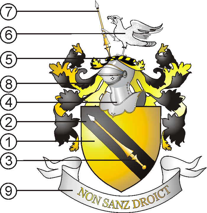 Elements of Coat of arms, order of description (blazon) on the arms of William Shakespeare